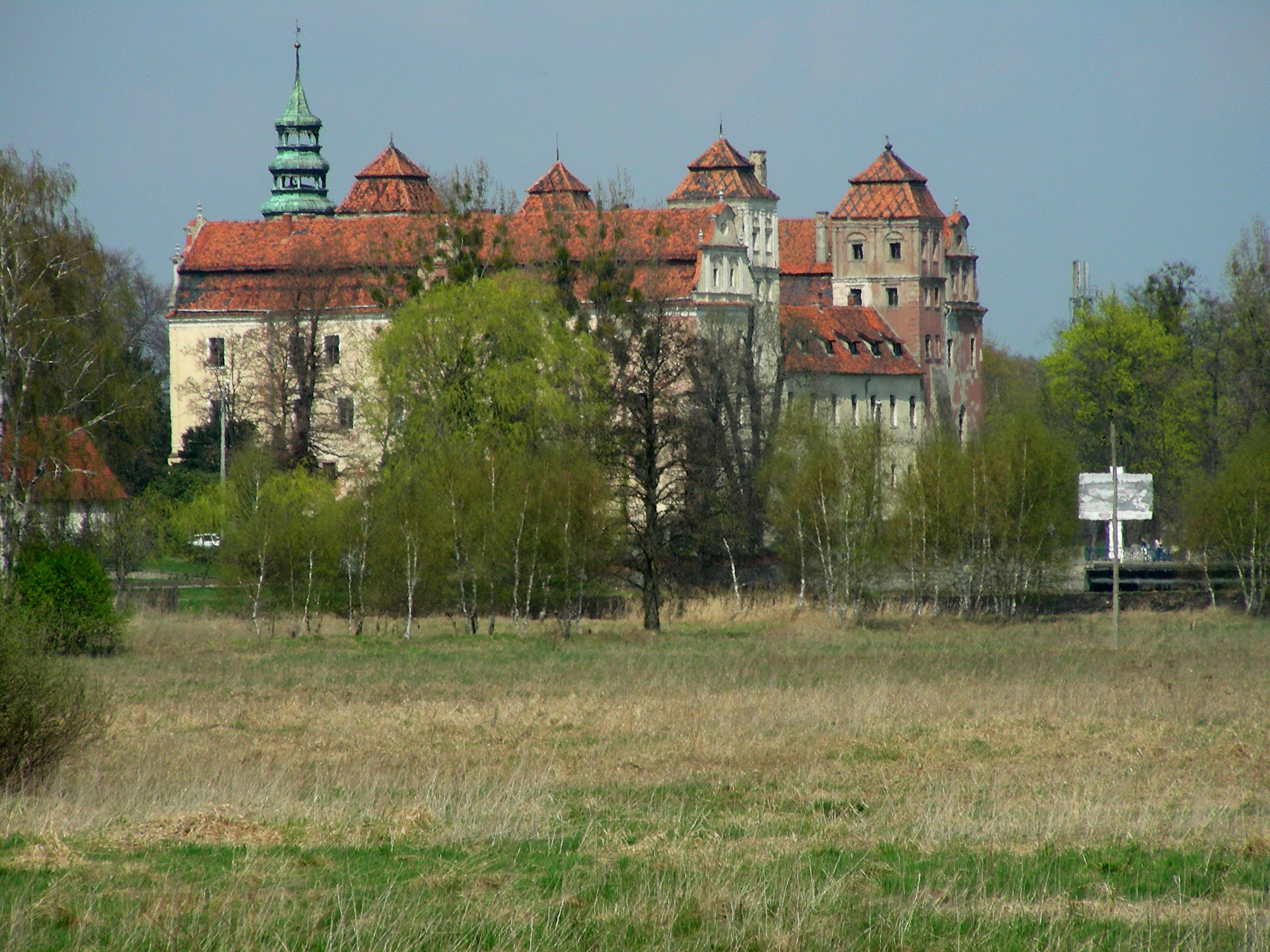 The Castle in Niemodlin